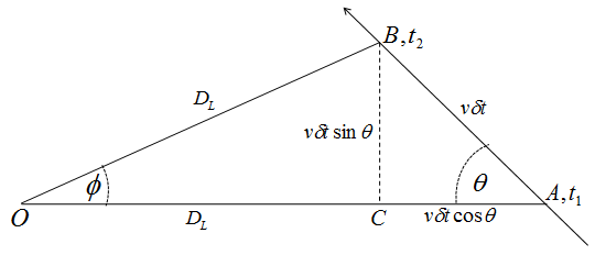 Diagram for deriving the relativistic explanation of superluminal motion in AGN jets